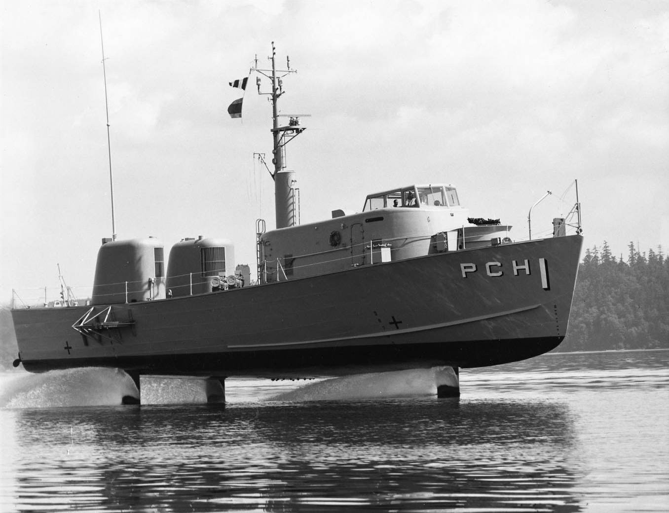 The experimental U.S. Navy hydrofoil USS High Point (PCH-1) underway, circa 1963.